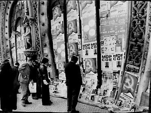 On the day before the 1975 Portuguese Constituent Assembly election, people stare at the electoral propaganda plastered on the façade of the Rossio railway station, in Lisbon, Portugal.